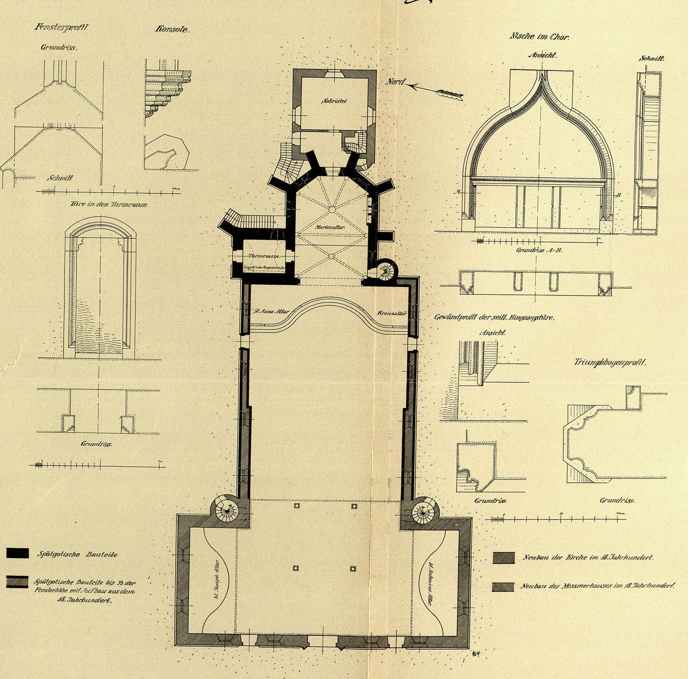 Map of the church "Maria in den Ketten" in Zell am Harmersbach, Baden-Württemberg, as in 1908